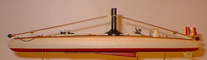 BAP Alianza was a torpedo boat built by Herreshoff & Co. in 1879. It is a model built by José Antonio Bedoya